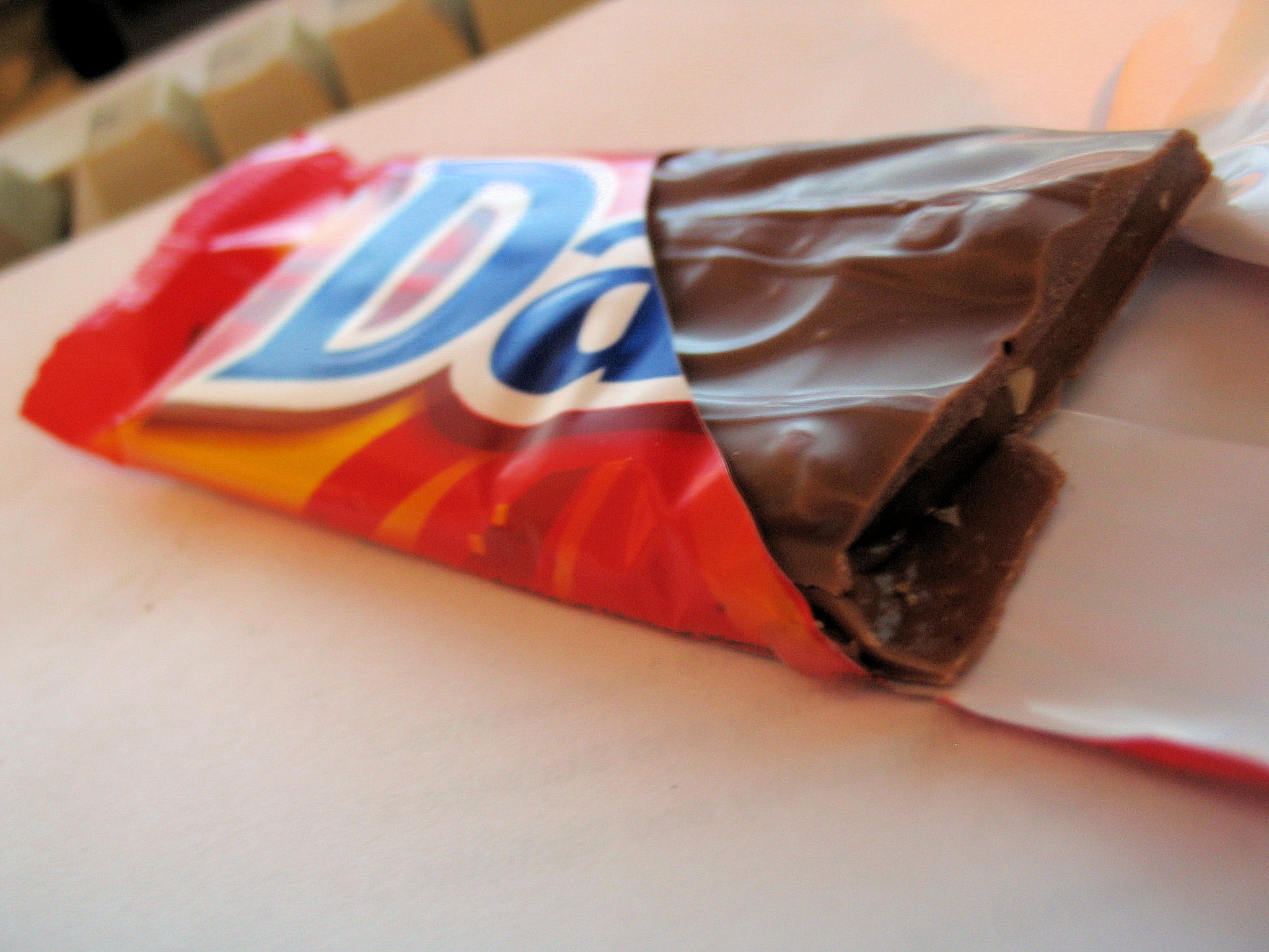 Author: Andrew Slater